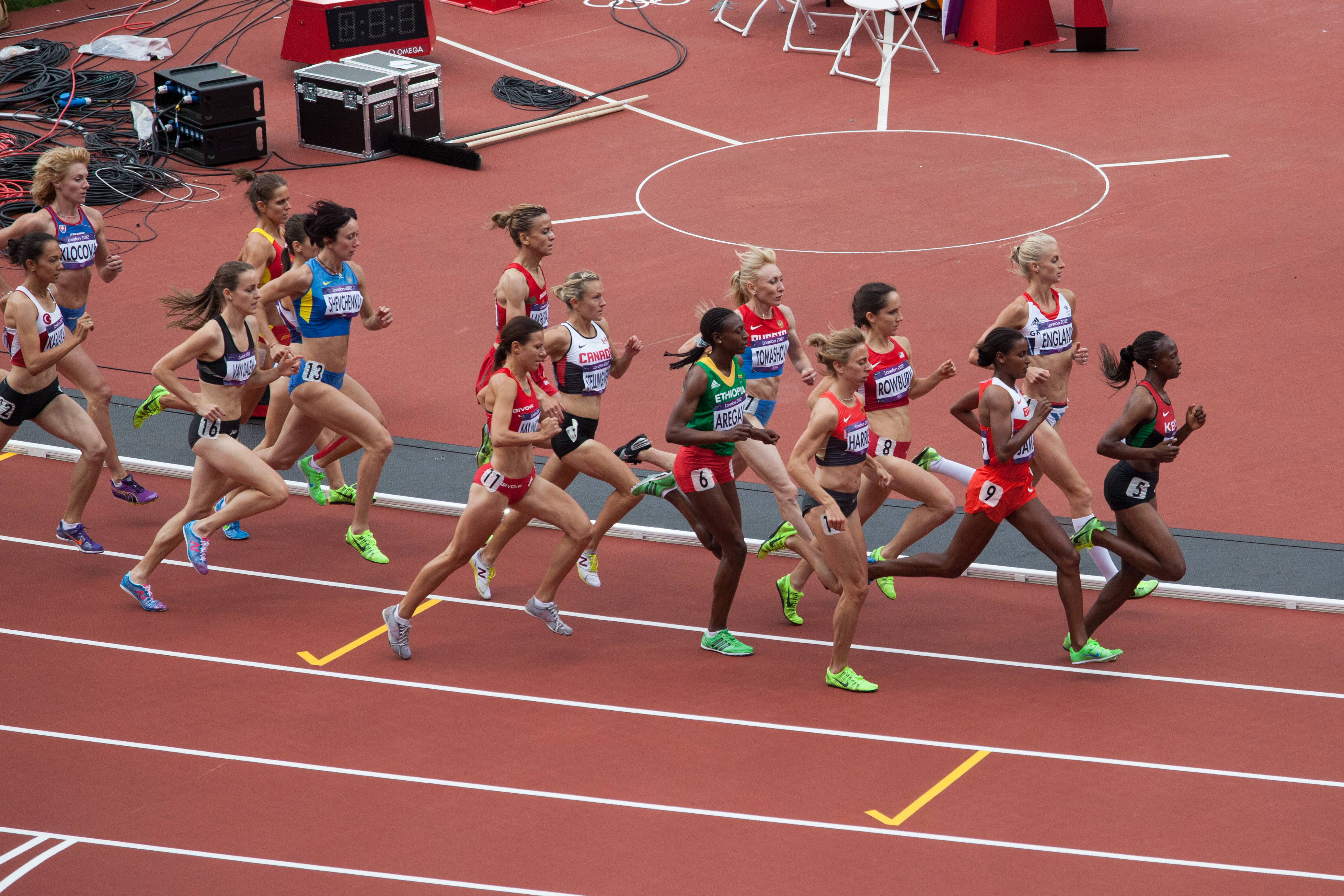 Olympic Stadium, 6 August 2012, London Olympic Games, Women's 1,500 metres heats, Tuğba Karakaya, Lucia Klocová, Lucy Van Dalen, Natalia Rodríguez, Anzhelika Shevchenko, Btissam Lakhouad, Marina Munćan, Hilary Stellingwerff, Tatyana Tomashova, Corinna Harrer, Shannon Rowbury, Maryam Jamal, Hannah England, Hellen Onsando Obiri